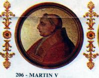 Reproduction of the portrait of Pope Martin V in the Basilica of Saint Paul Outside the Walls, Rome